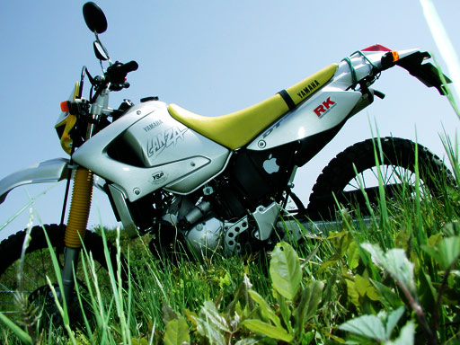 This is my YAMAHA, named DT230 LANZA.